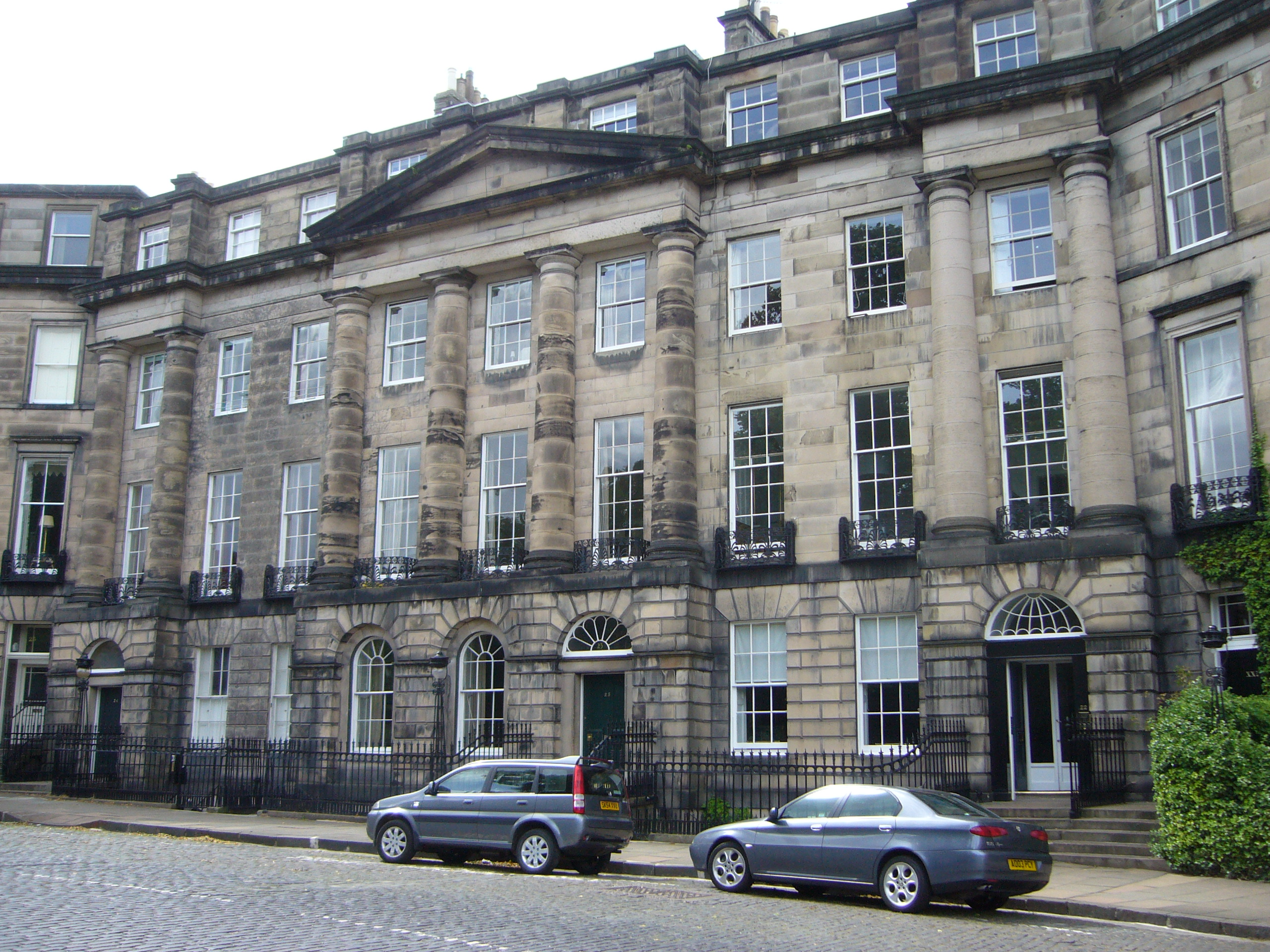 22-24 Moray Place, Edinburgh New Town